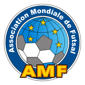 Logotype of the World Futsal Association (WFA) - French version